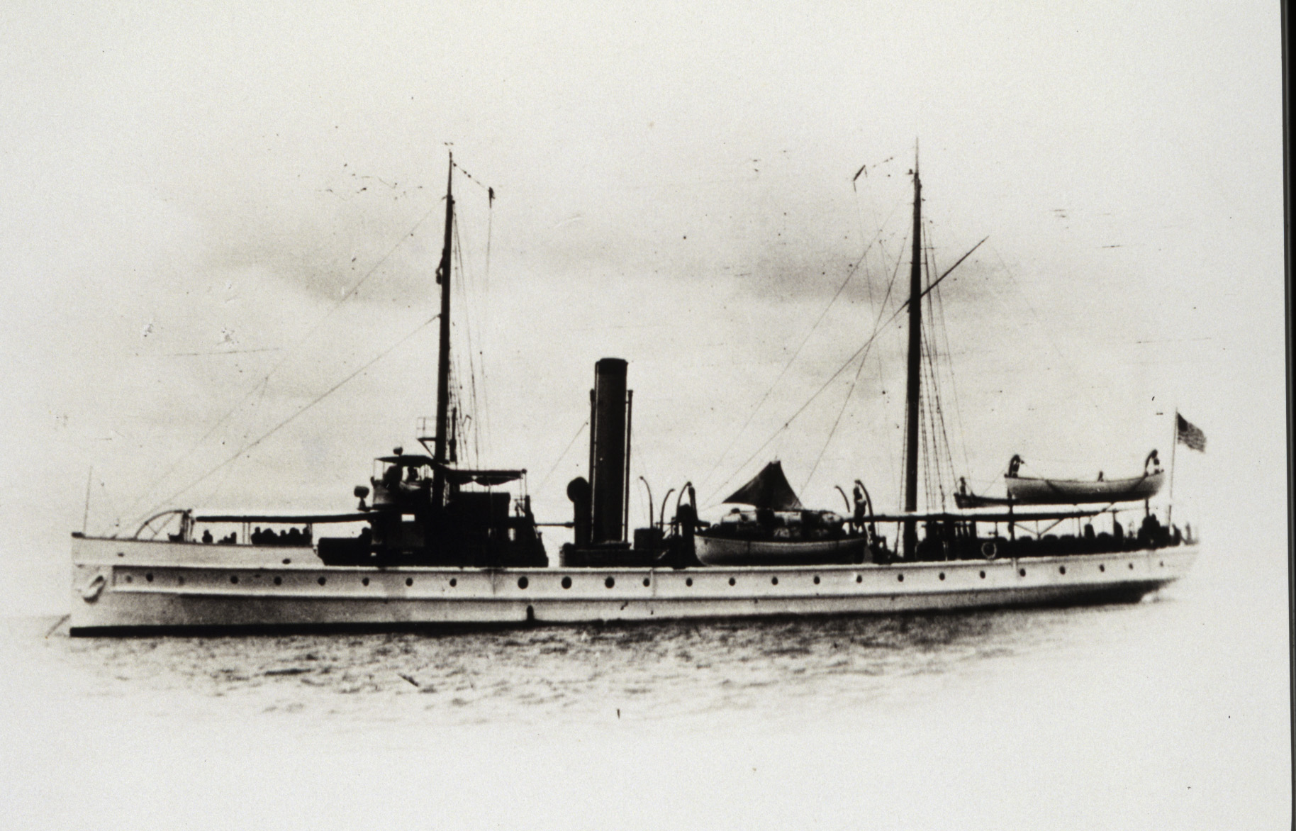 Coast and Geodetic Survey Ship A. D. Bache In service 1901-1927.